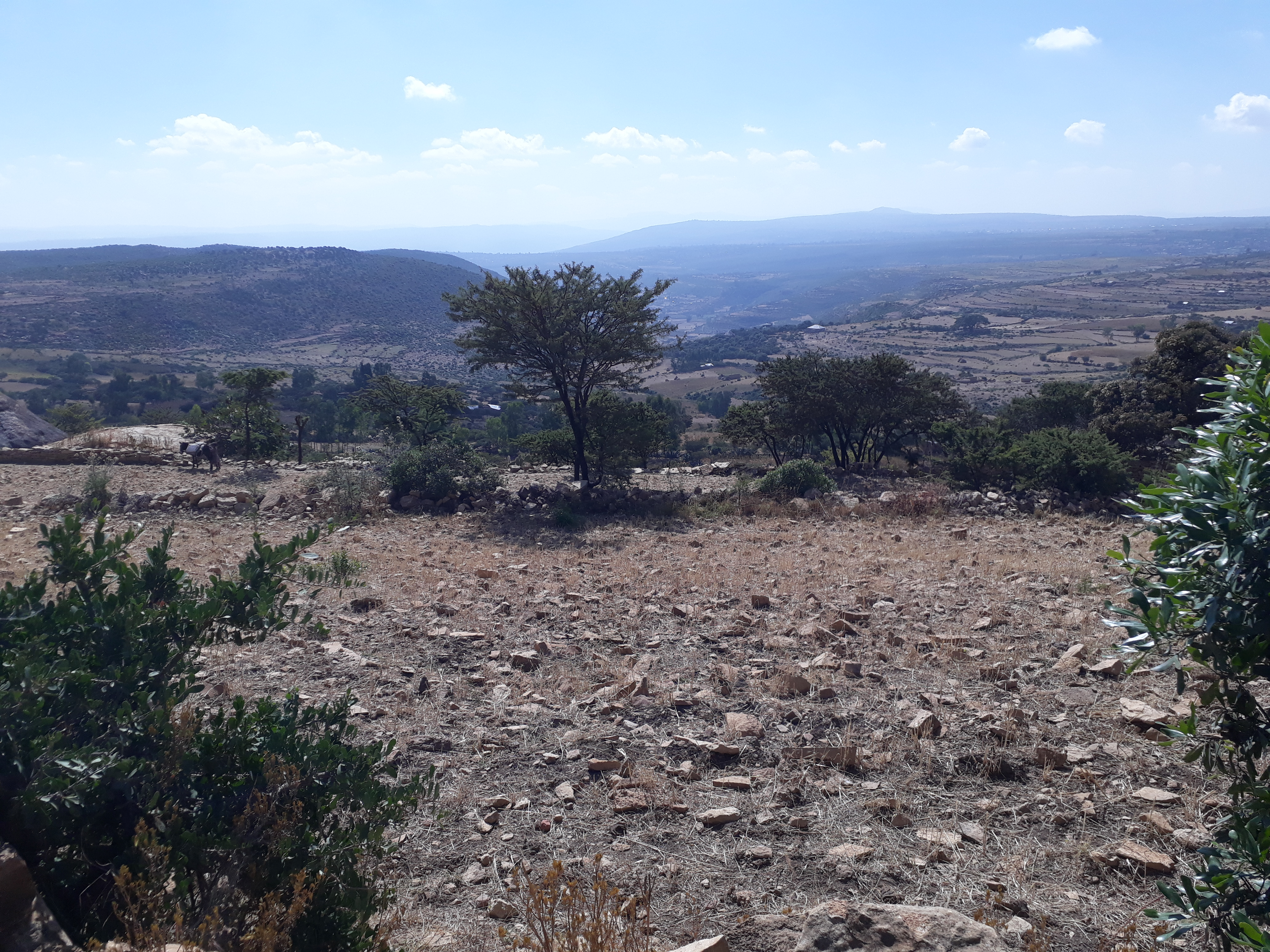 east of Zerfenti